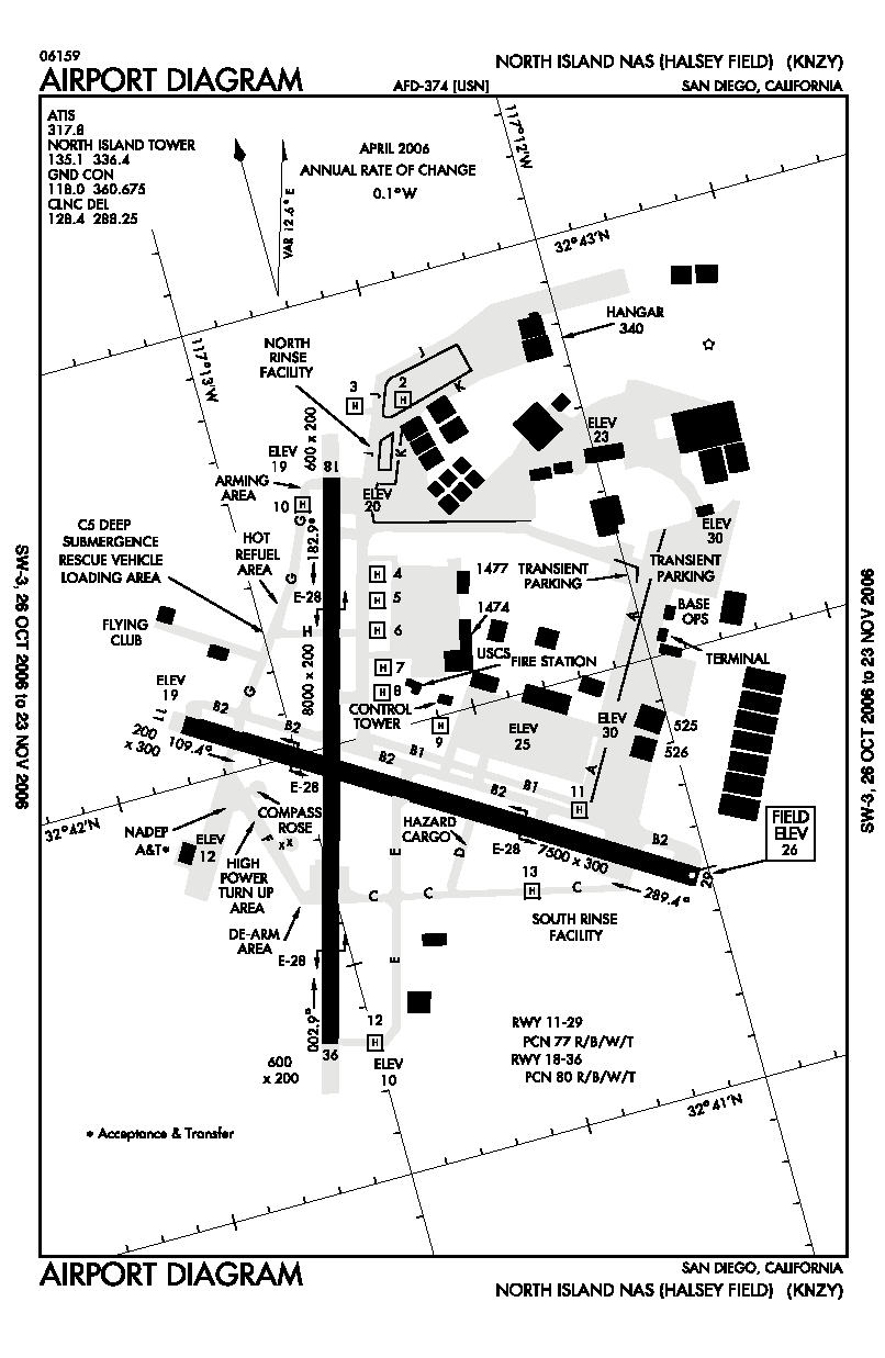 FAA airport diagram for NZY (NAS North Island) in California, United States.